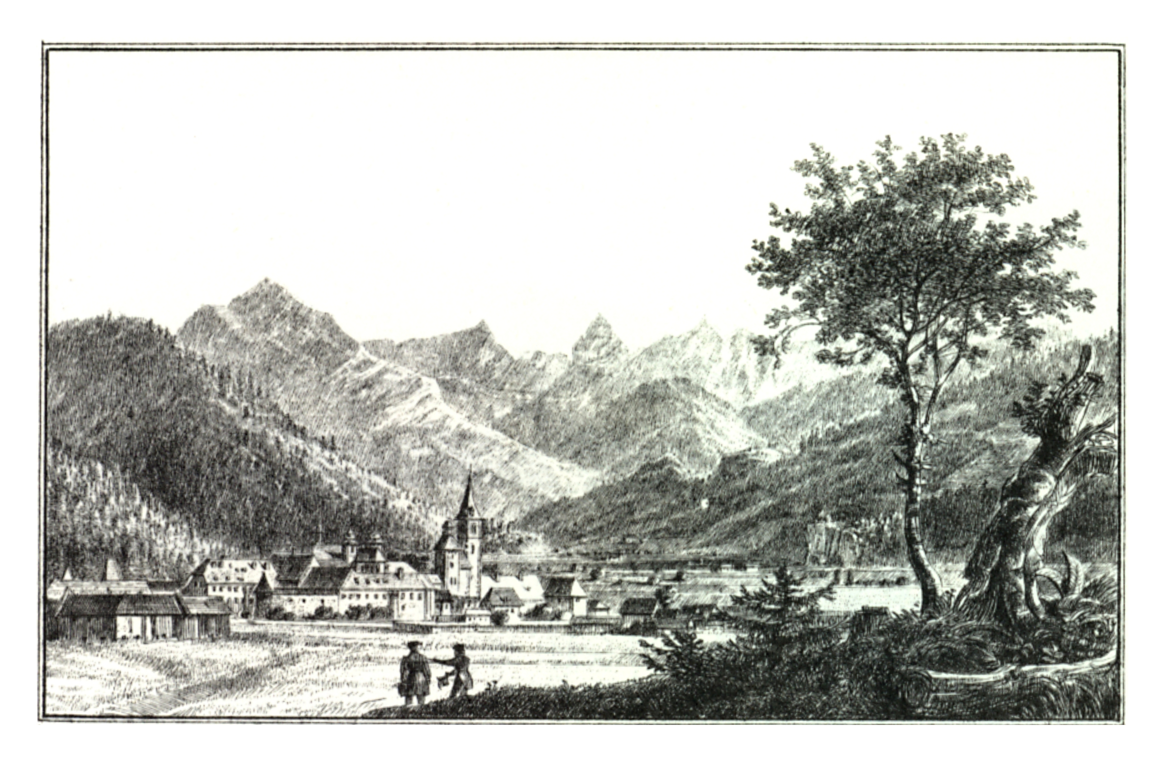 J. F. Kaiser - lithographirte Ansichten der Steyermärkischen Städte, Märkte und Schlösser Graz, 1825 Joseph Franz Kaiser (1786–1859) Alternative names J. F. KaiserDescriptionAustrian printer and editorDate of birth/death 11 March 1786 19 September 1859Location of birth/death Graz (Styria) GrazAuthority control : Q1499963 VIAF: 30629353 ISNI: 0000 0000 3083 0153 LCCN: n87141671 GND: 129880159 NLP: A24960305 WorldCat creator QS:P170,Q1499963 Scanprojekt Community Projektbudget 2012 This scan or this PDF-file was created within the GLAM-project Bookscanning, supported by Wikimedia Germany and Wikimedia Austria as a part of the community-project to capture books, documents and pictures which are not eligible to copyright or for which the copyright has expired. This document describes or depicts an object which is located in Austria today. Send requests for uncompressed scans to Hubertl. This work is in the public domain in its country of origin and other countries and areas where the copyright term is the author's life plus 100 years or less. You must also include a United States public domain tag to indicate why this work is in the public domain in the United States. This file has been identified as being free of known restrictions under copyright law, including all related and neighboring rights.